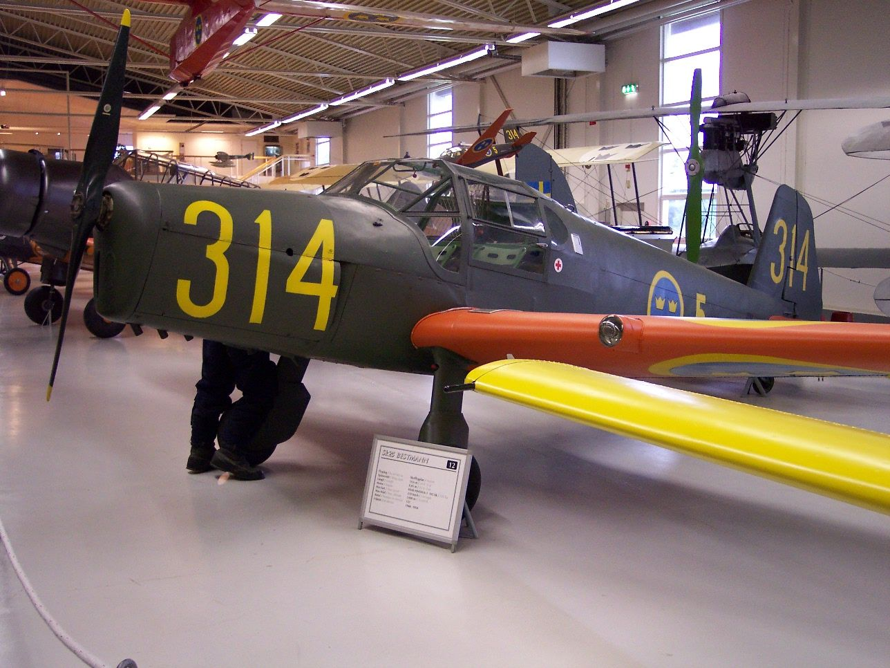 Bücker Bü 181, swedish air forces